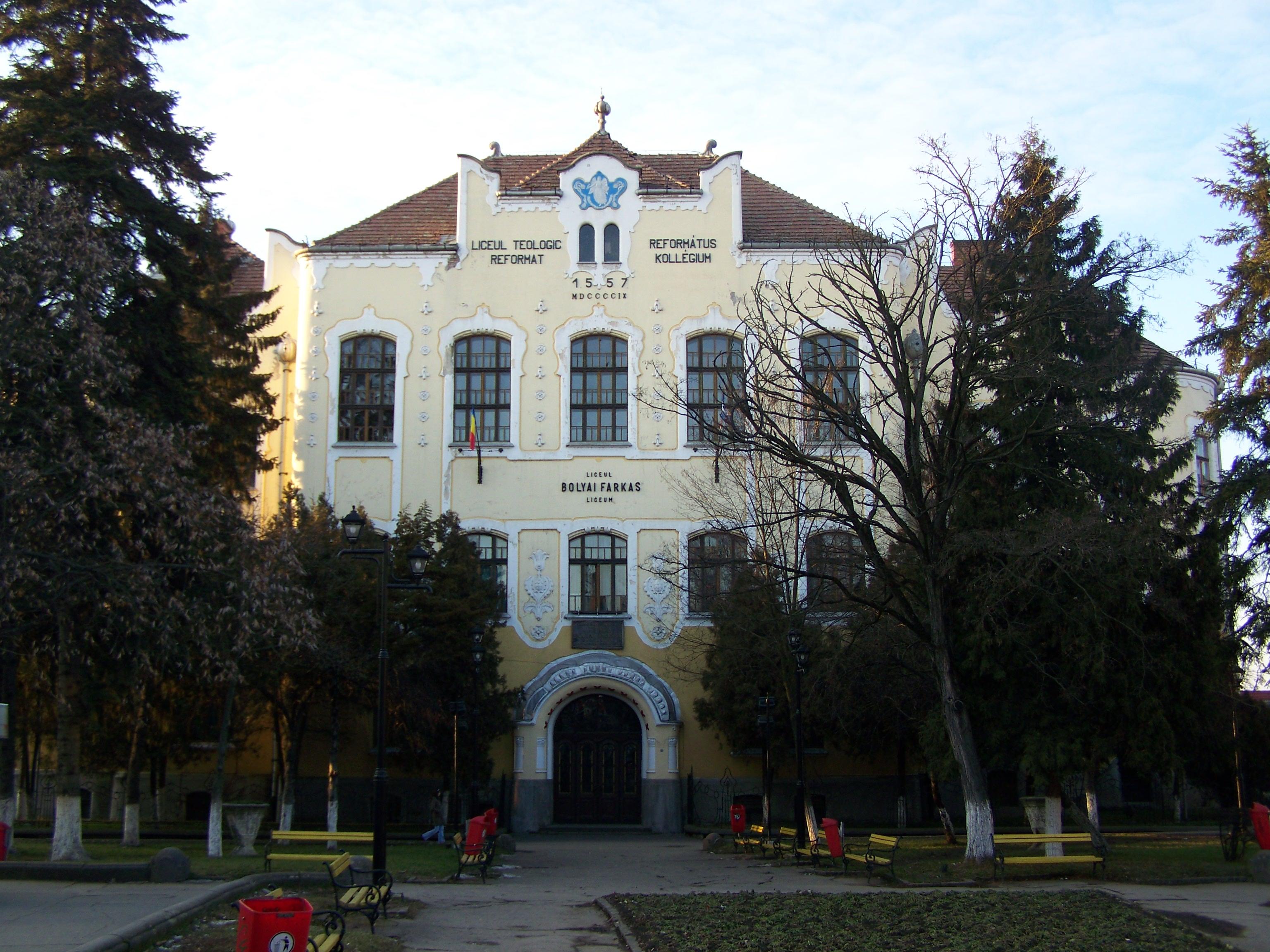 The Bolyai Farkas College in Târgu Mureş